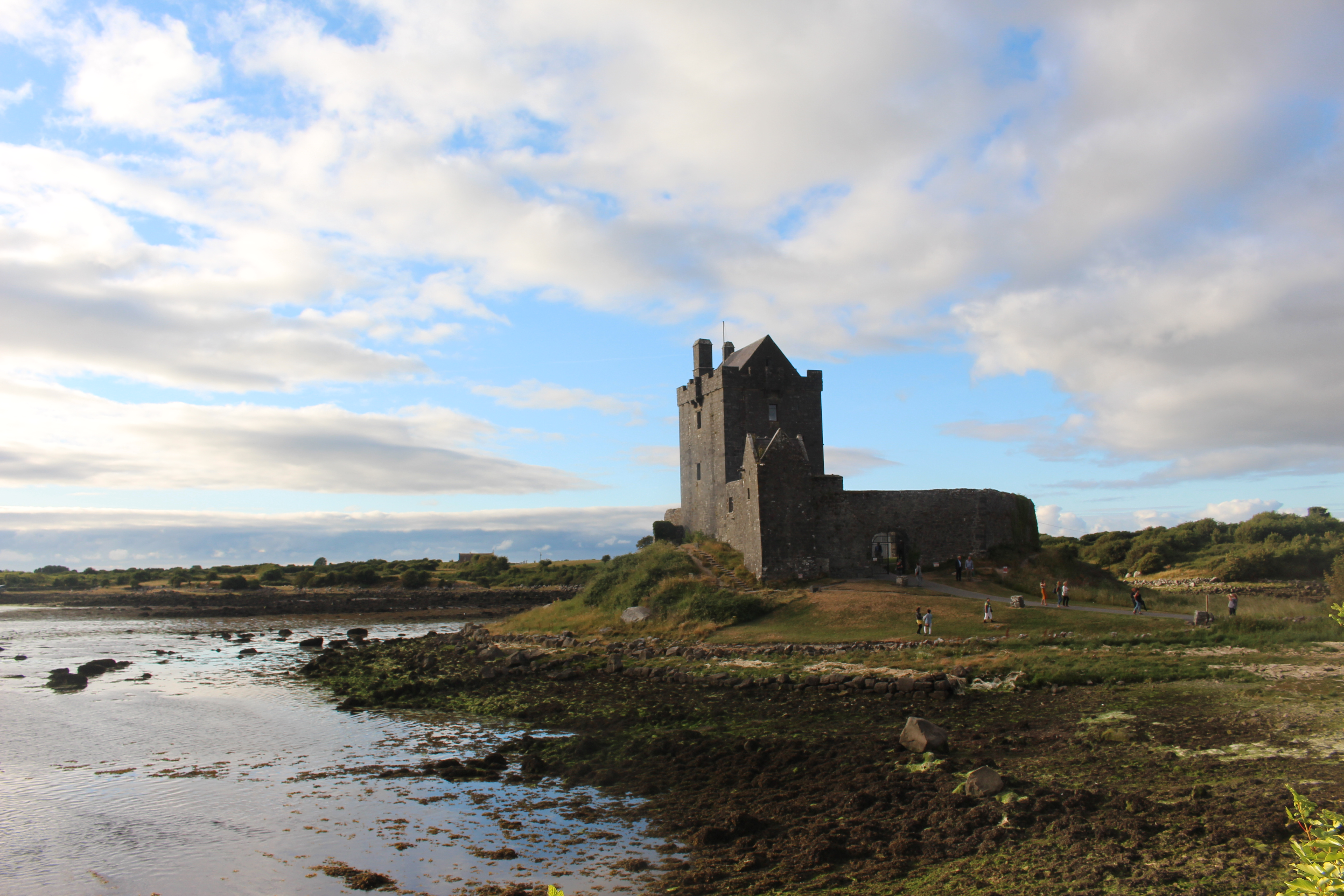 Kinvara, Dunguaire Castle. Wikidata has entry Q1265826 with data related to this item.